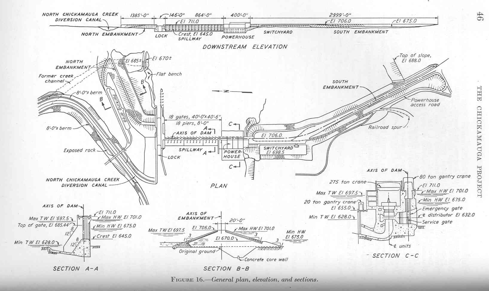 TVA's design plan for Chickamauga Dam, on the Tennessee River near Chattanooga, Tennessee, USA.